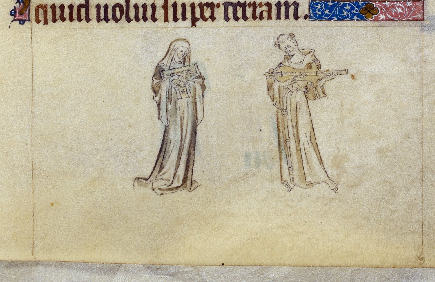 British Library image Royal 2 B VII f. 177. Detail of a bas-de-page scene of a nun playing a psaltery and a monk playing a citola.